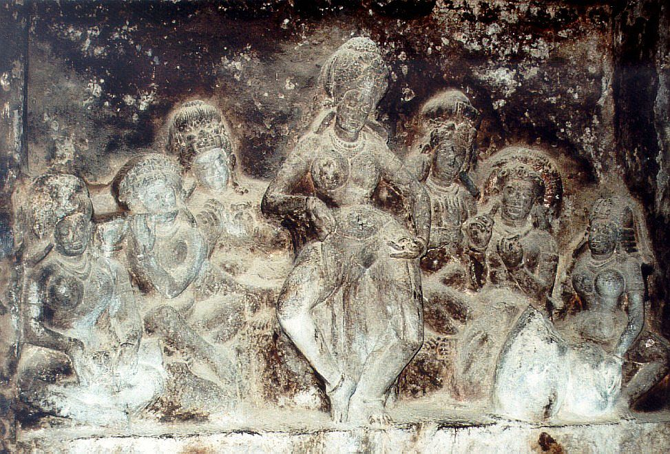 Aurangabad Caves, Maharashtra, India